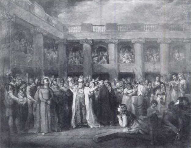 Christ Rejected by William Dunlap, 1822.